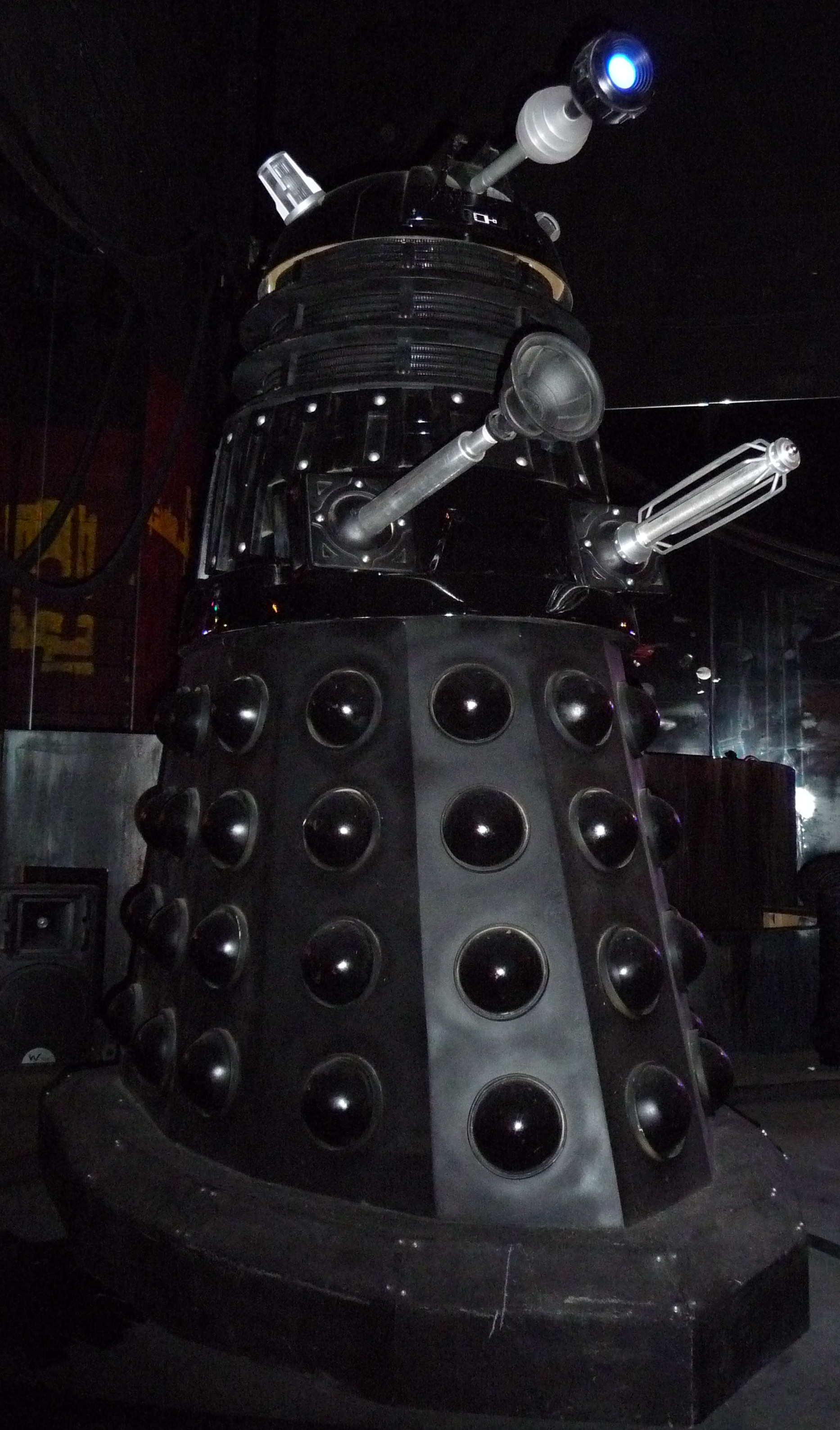 Doctor Who Exhibition Doctor Who Experience